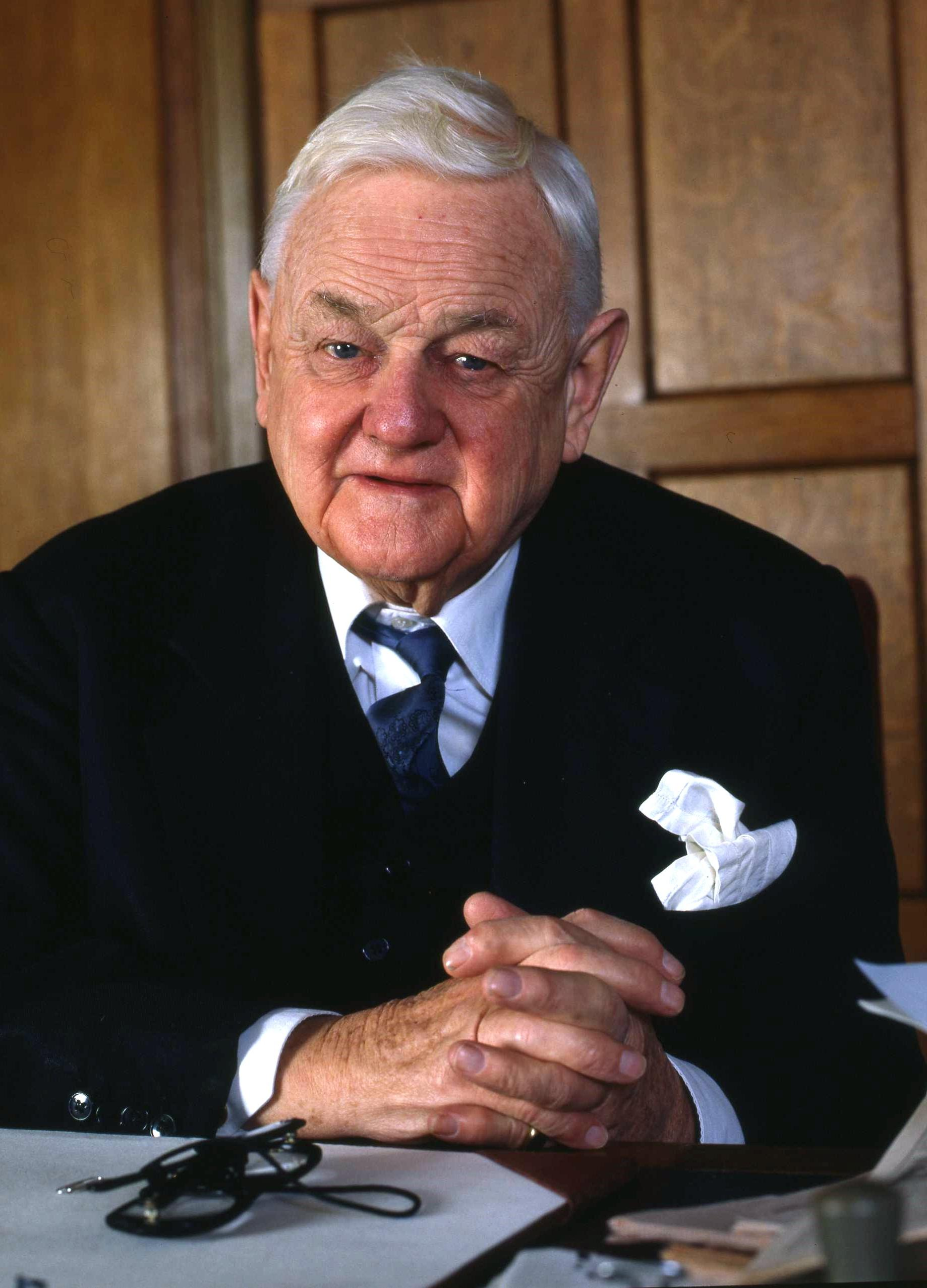 Portrait of Quintin Hogg Lord Hailsham